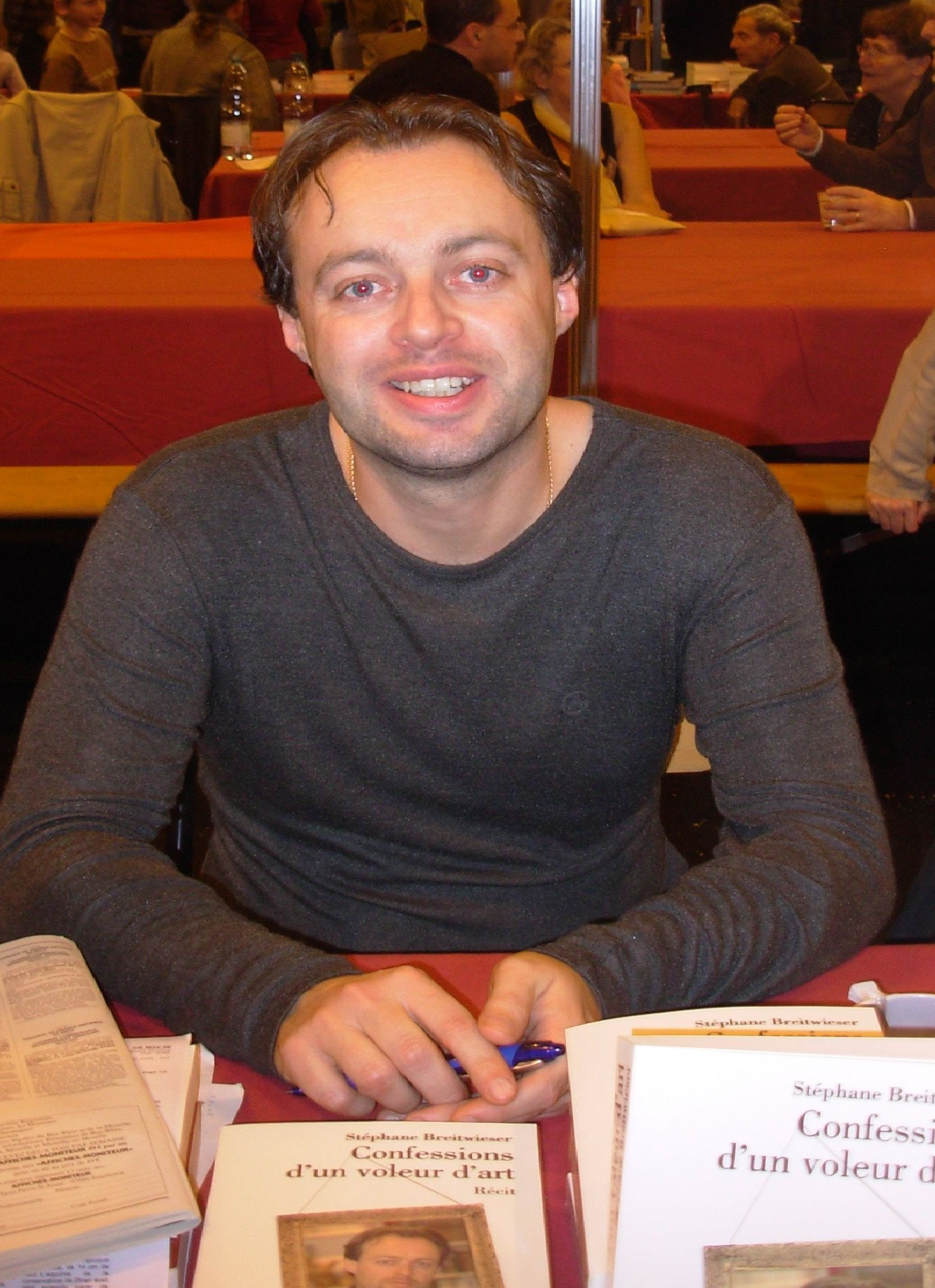 Stéphane Breitwieser in the "salon du livre de Colmar" (Haut-Rhin, France).